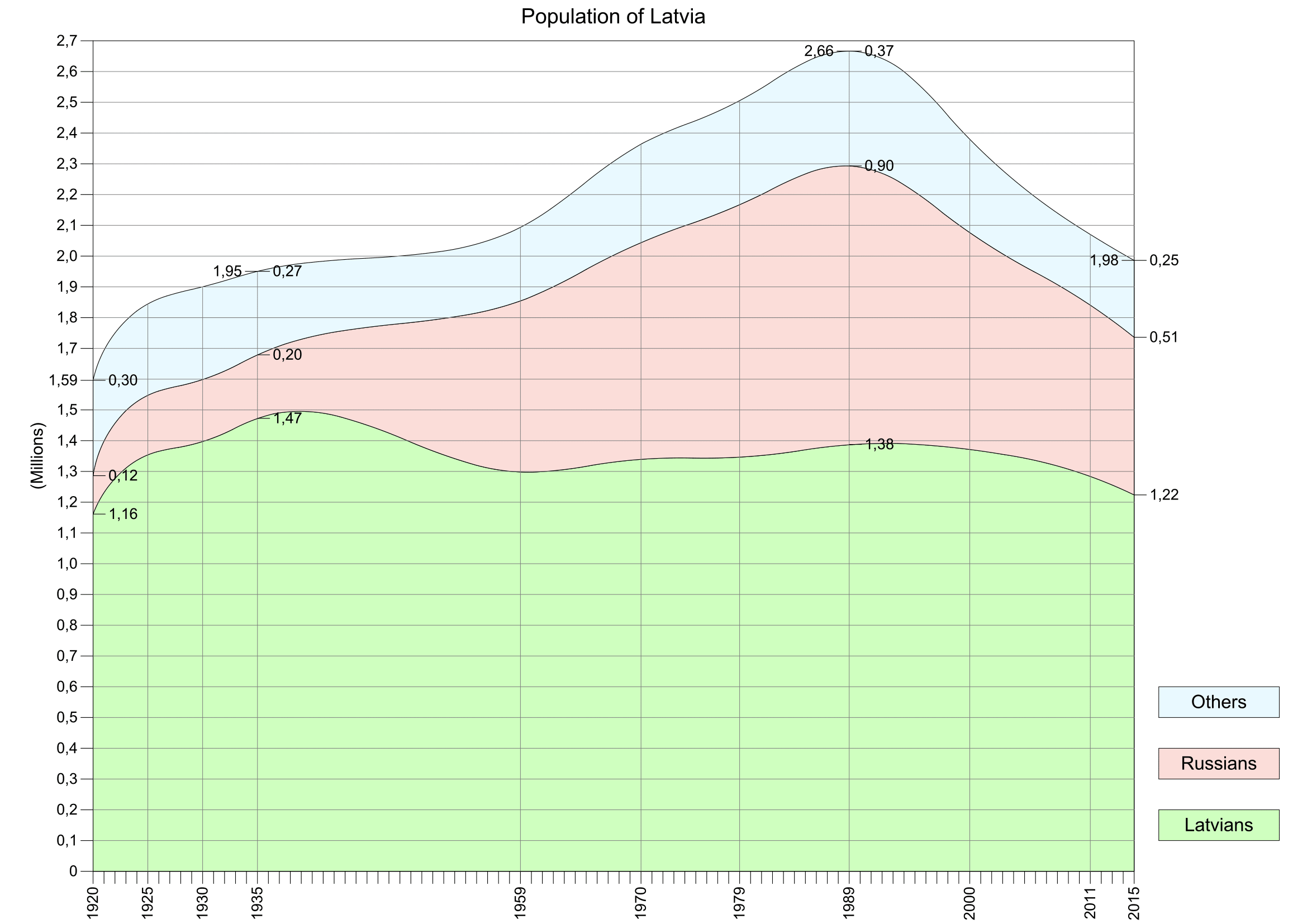 Population of Latvia.